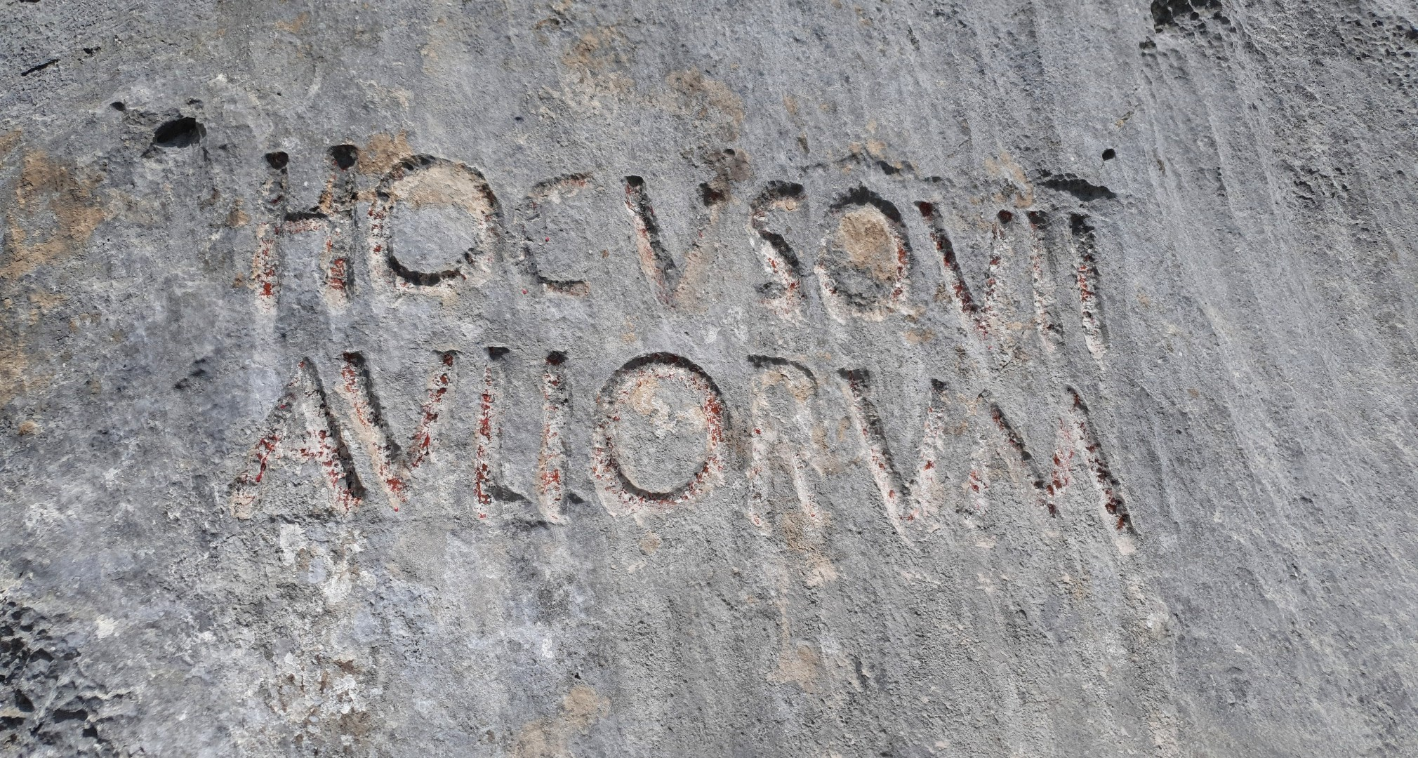 Roman inscriptions of the Lances de Malissard